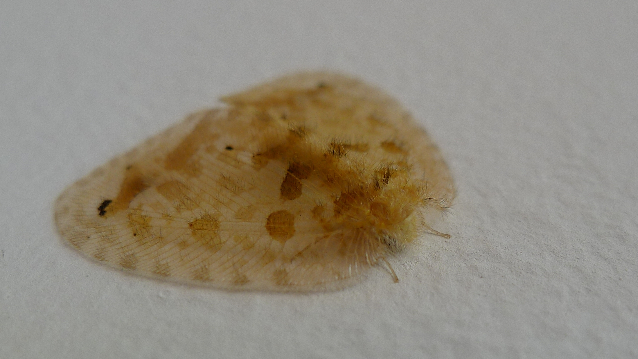 Silky Lacewing, Psychopsis insolens (Neuroptera: Psychopsidae). Sitting on the ceiling - I rotated the image to help it make sense. Como NSW Australia January 2012